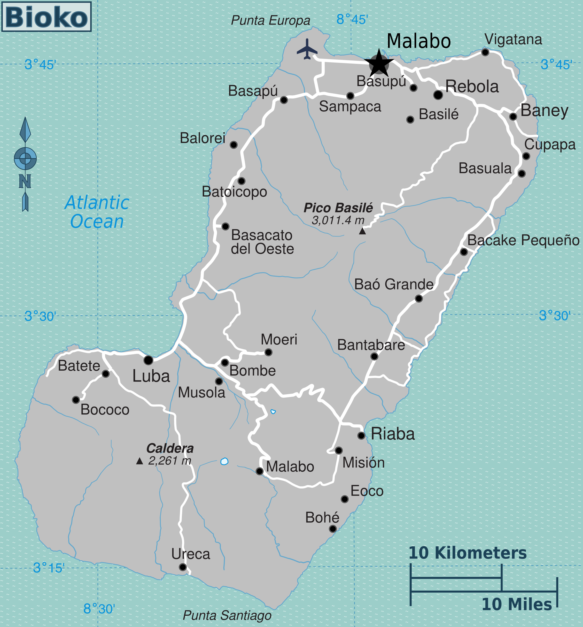 Map of Bioko (Equatorial Guinea) for use on Wikivoyage, English version